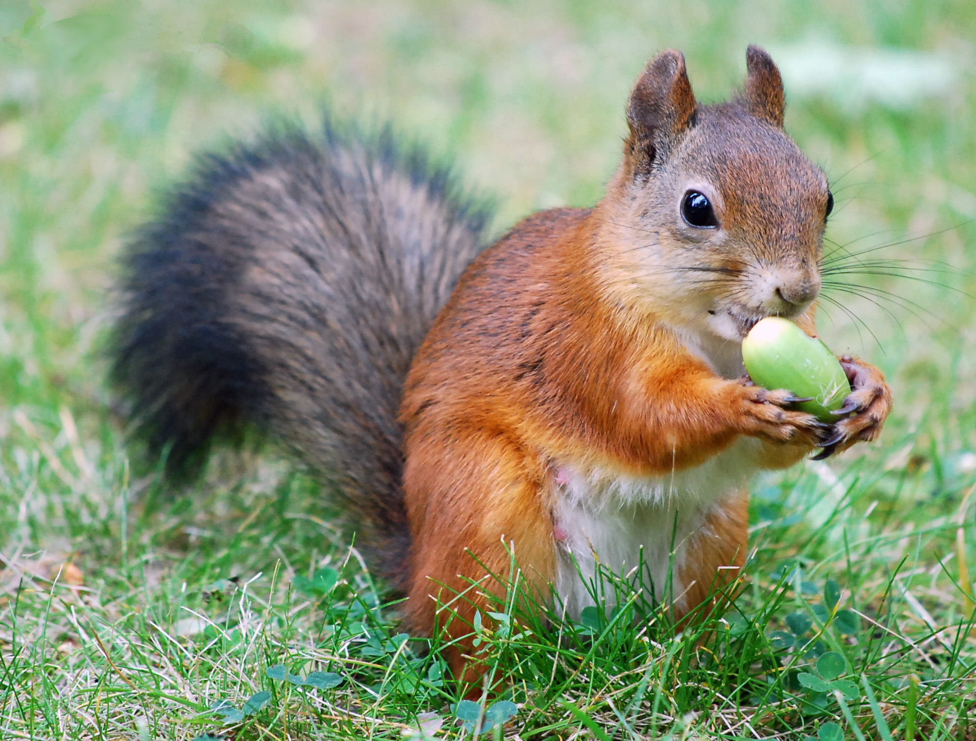 Taken in Helsinki, Finland.